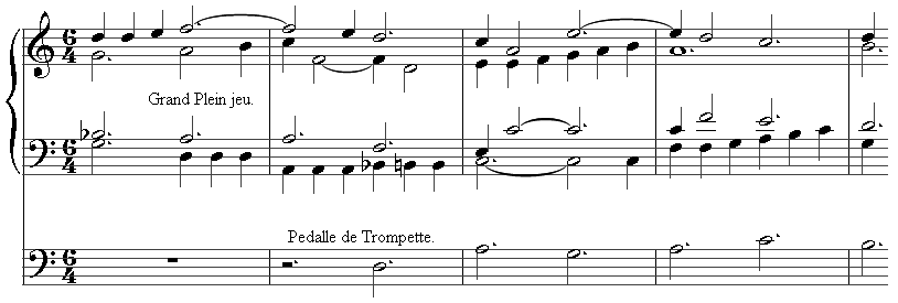 Bars 9-12 from Dernier Kyrie of the first Mass by Nicolas Gigault (c.1627–1707). Made using Sibelius 4 by Jashiin. The music quoted is in the public domain, and the image is hereby released into the public domain by Jashiin.